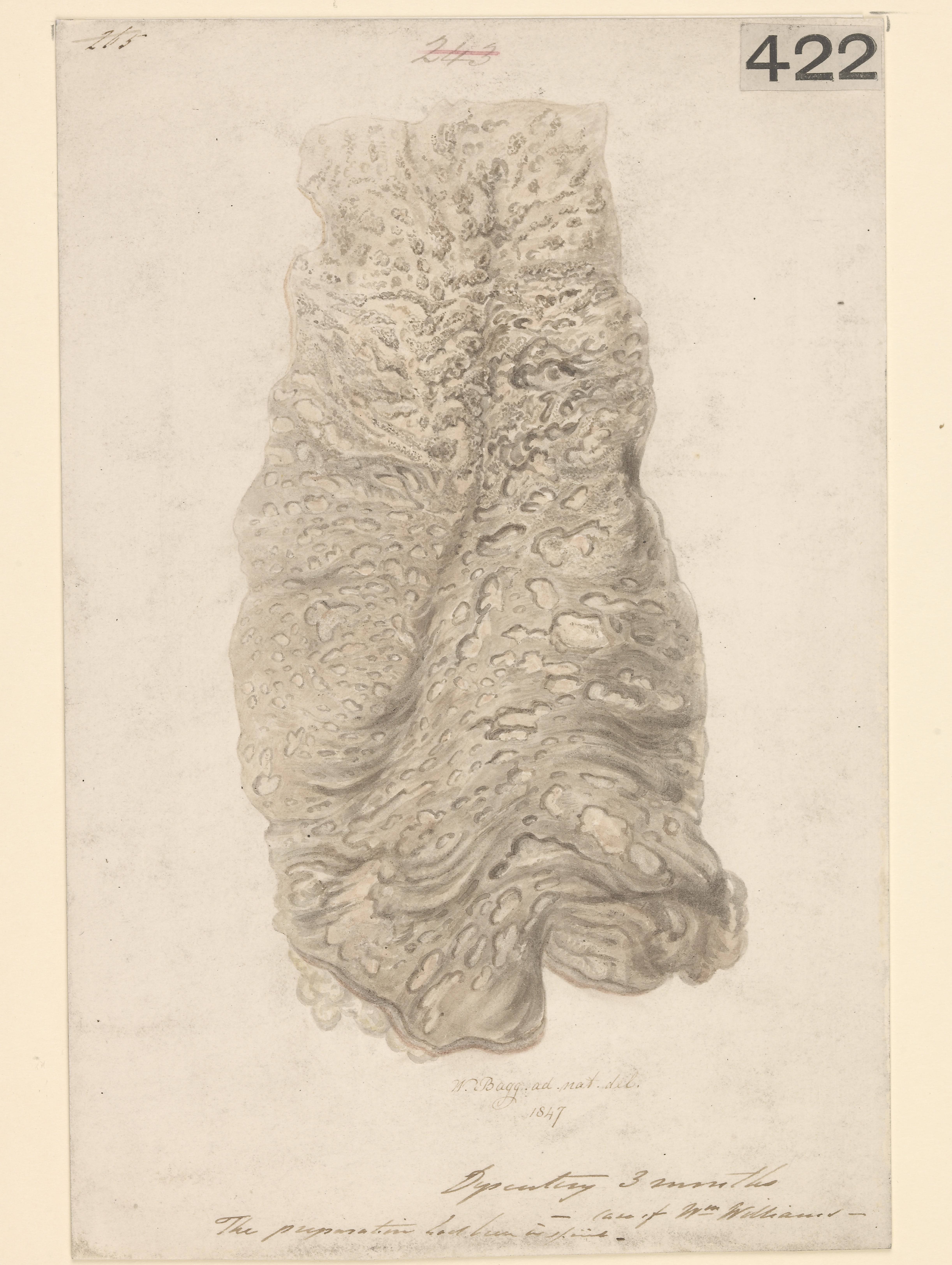 Watercolour drawing of a portion of the intestine, illustrating the morbid effects of a case of dysentery of three months duration. Medical Photographic Library Keywords: Bagg, William